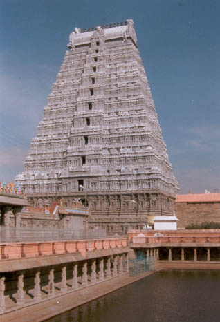 The Gopuram or Templetower of the Holy Thiruvannamalai temple.